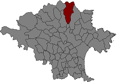 Location of Espolla in Alt Empordà